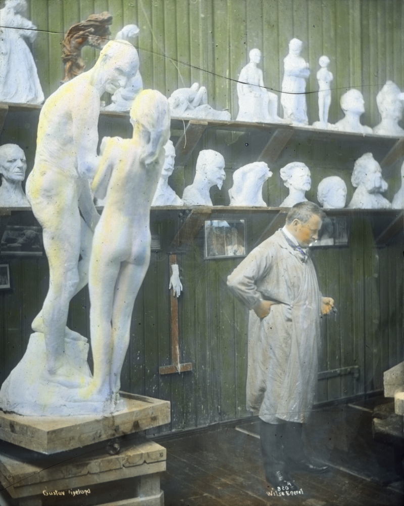 Håndkolorert dias. Portrett av billedhuggeren Gustav Vigeland i hans atelier. Bak Vigeland står en rekke skulpturmodeller og byster. I forgrunnen står en skulpturgruppe av en eldre mann og en yngre jente.